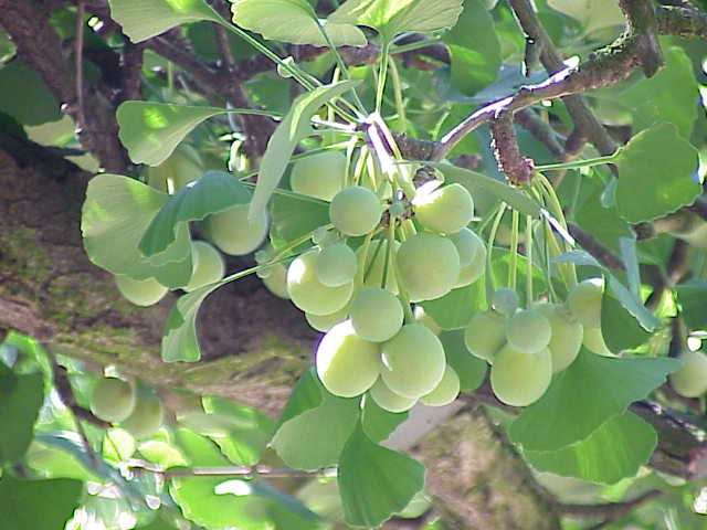 Species: Ginkgo biloba Family: Ginkgoaceae Image No. 1